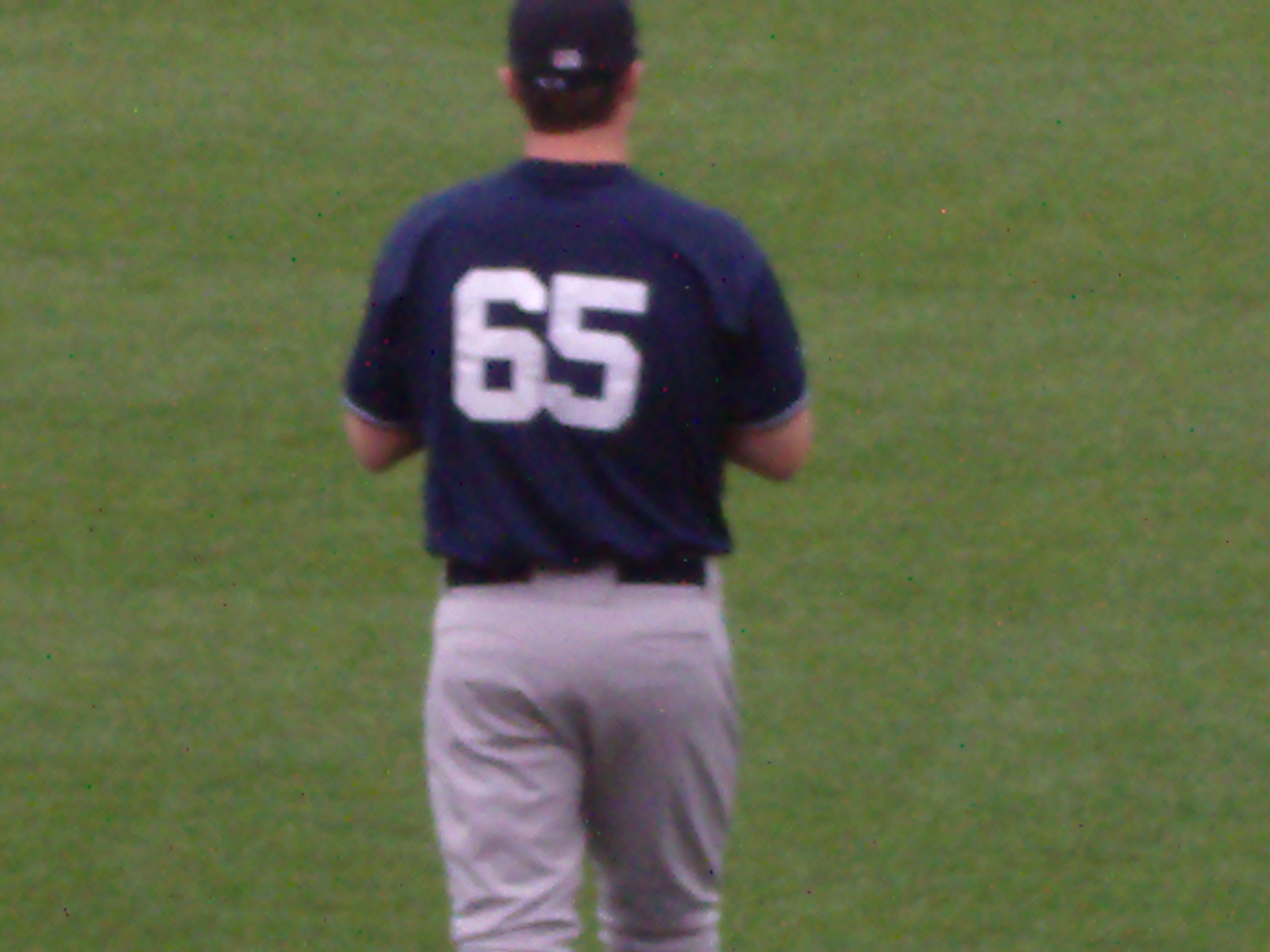 Description Phil Hughes on the Scranton Yankees DateAugust 27, 2008SourceI created this work entirely by myself.AuthorAdam Penale (talk) 20:52, 28 August 2008 . . WWEFAN99 . . 3,072×2,304 (1.1 MB) Phil Hughes on the Scranton Yankees